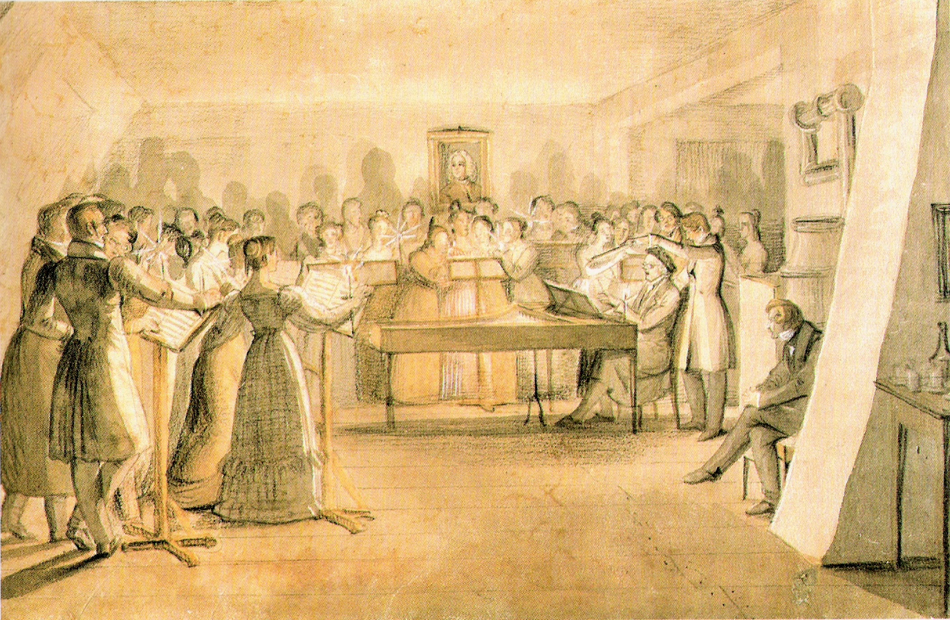 Choir practice at Anton Friedrich Thibaut's